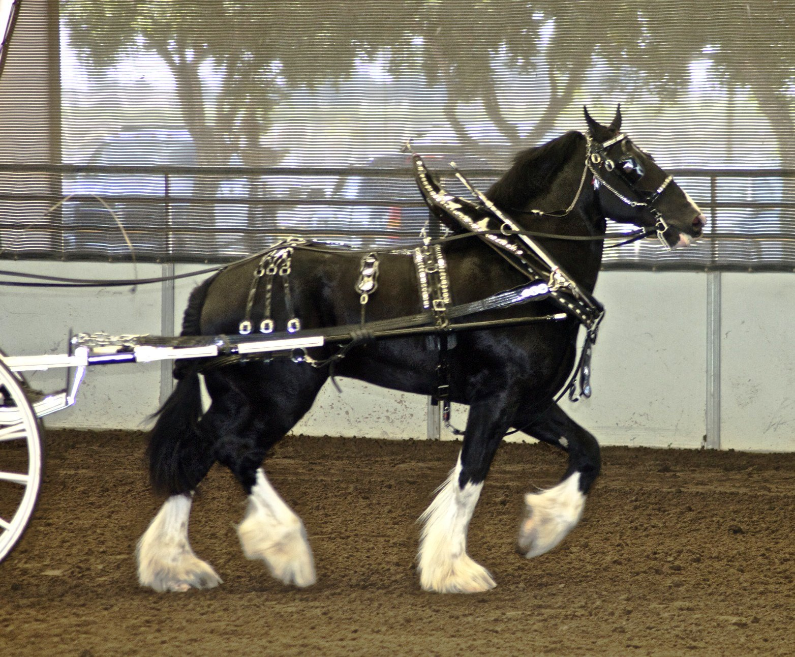 Shire